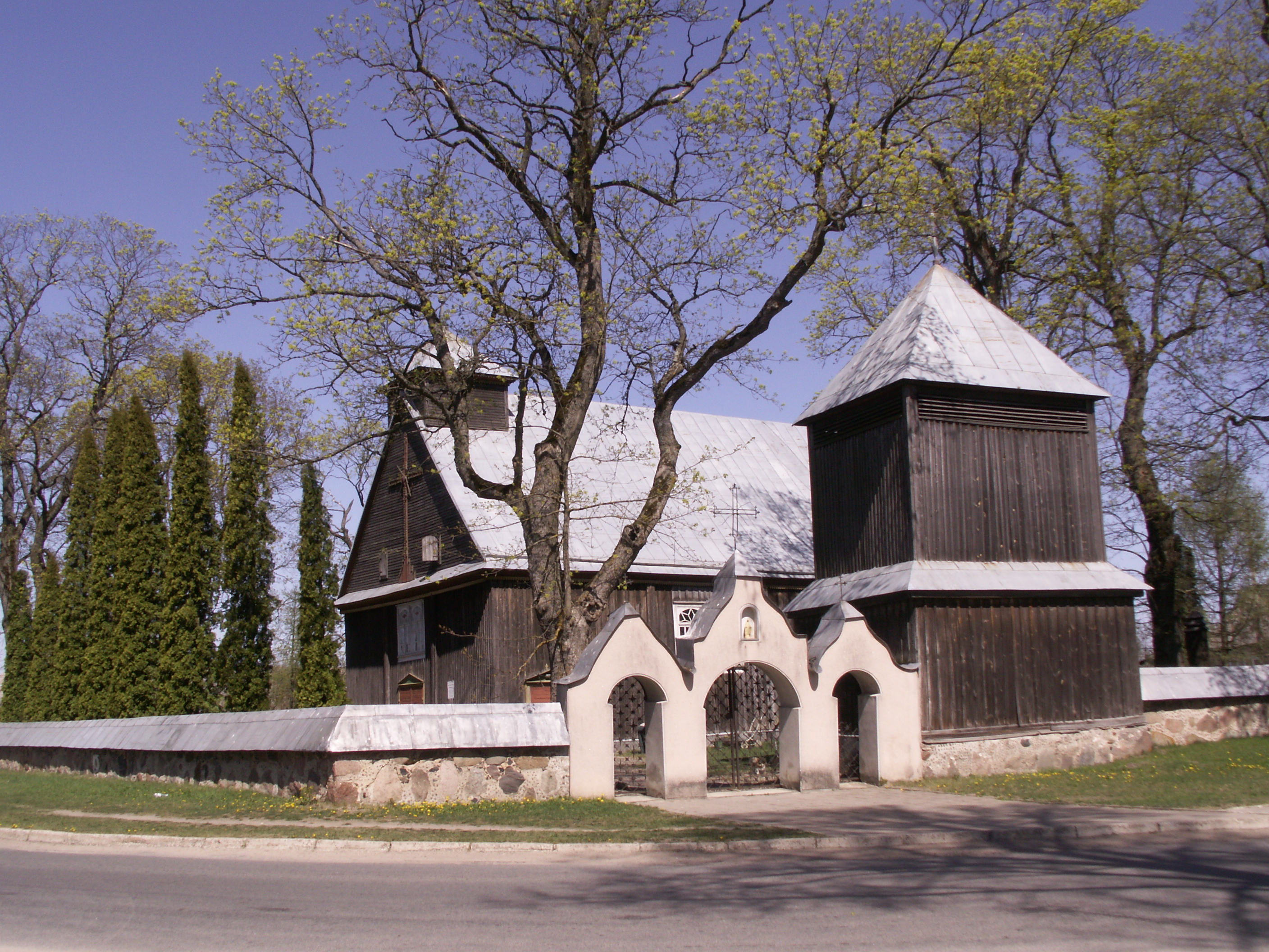 Churche in Inturkė, Molėtai district, Lithuania